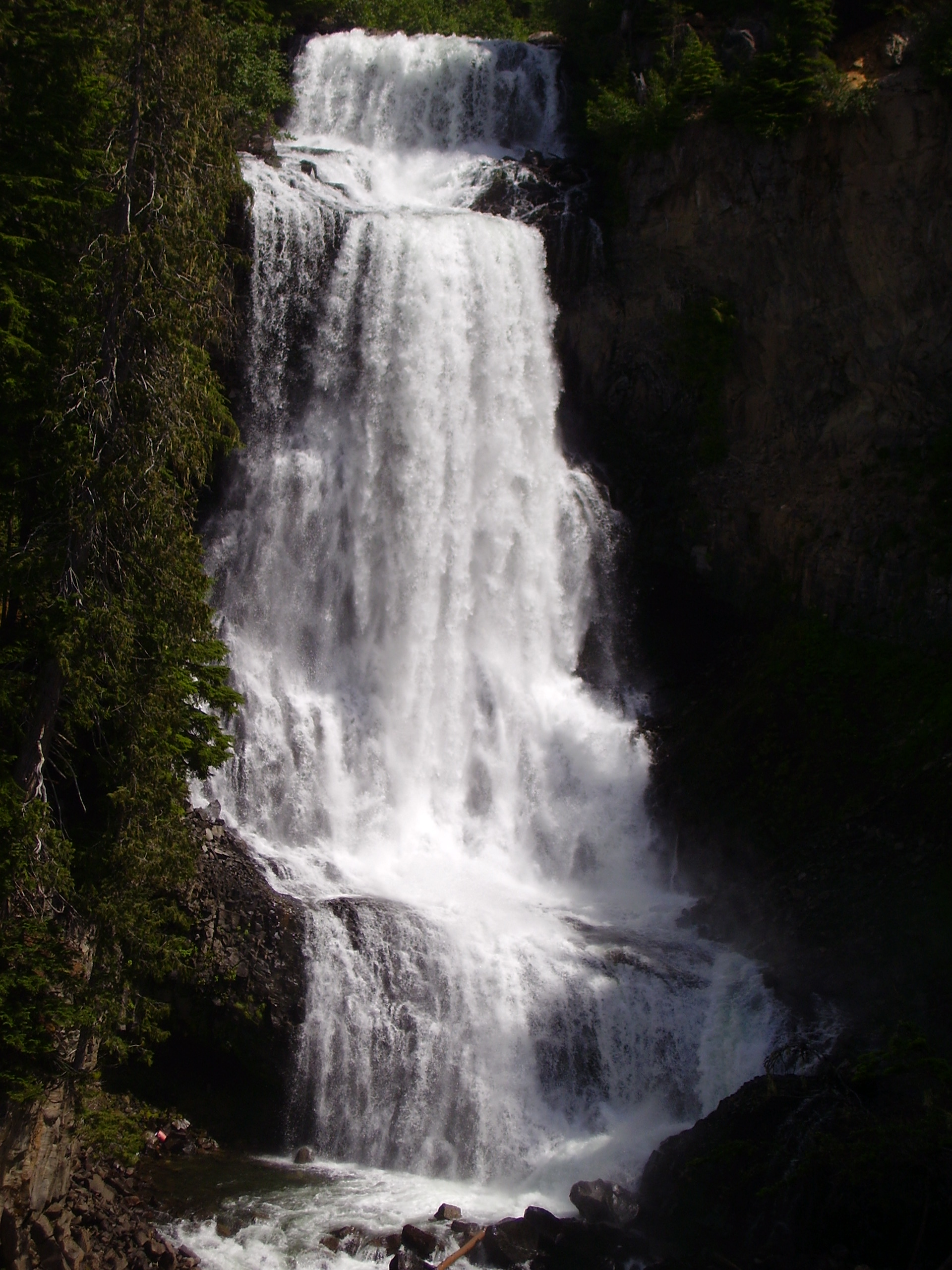 Alexander Falls